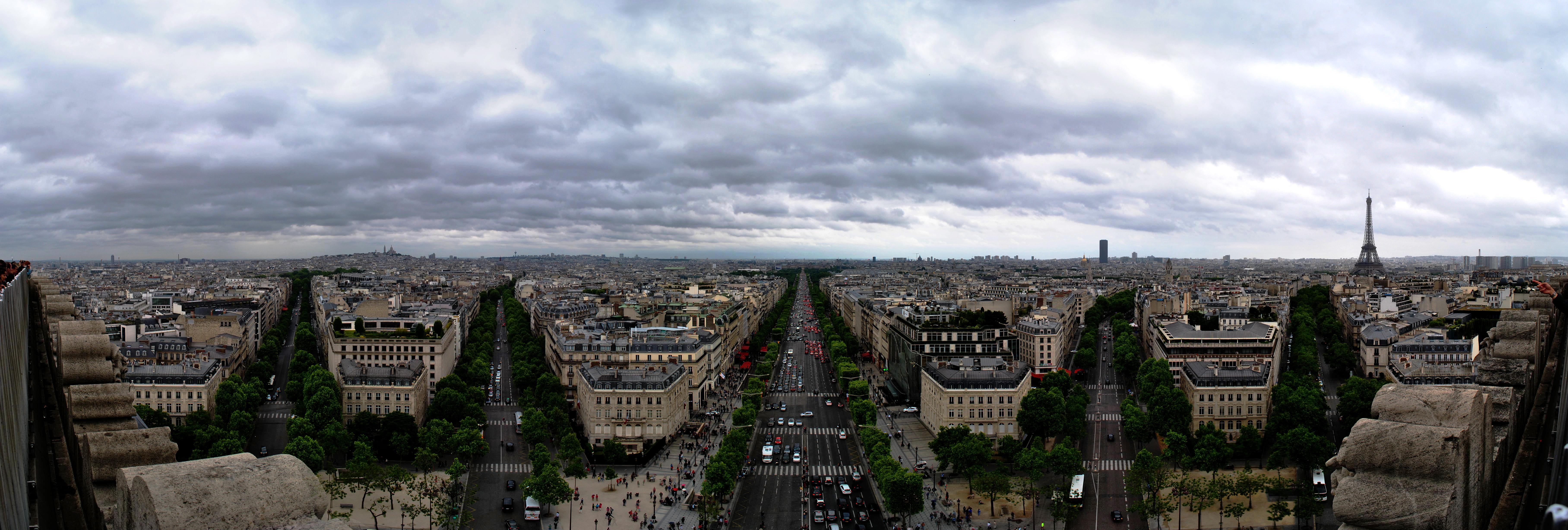 View of the city of Paris taken from the top of Arc de Triomphe to the direction of Champs-Elysées.